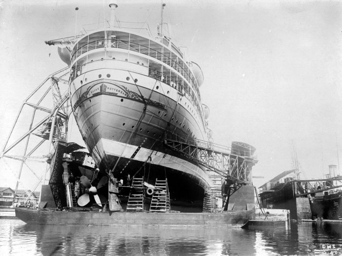 MS Sibajak, built for the Rotterdamse Lloyd at "De Schelde", Vlissingen. 12.040 GRT. Launched April 2, 1927.